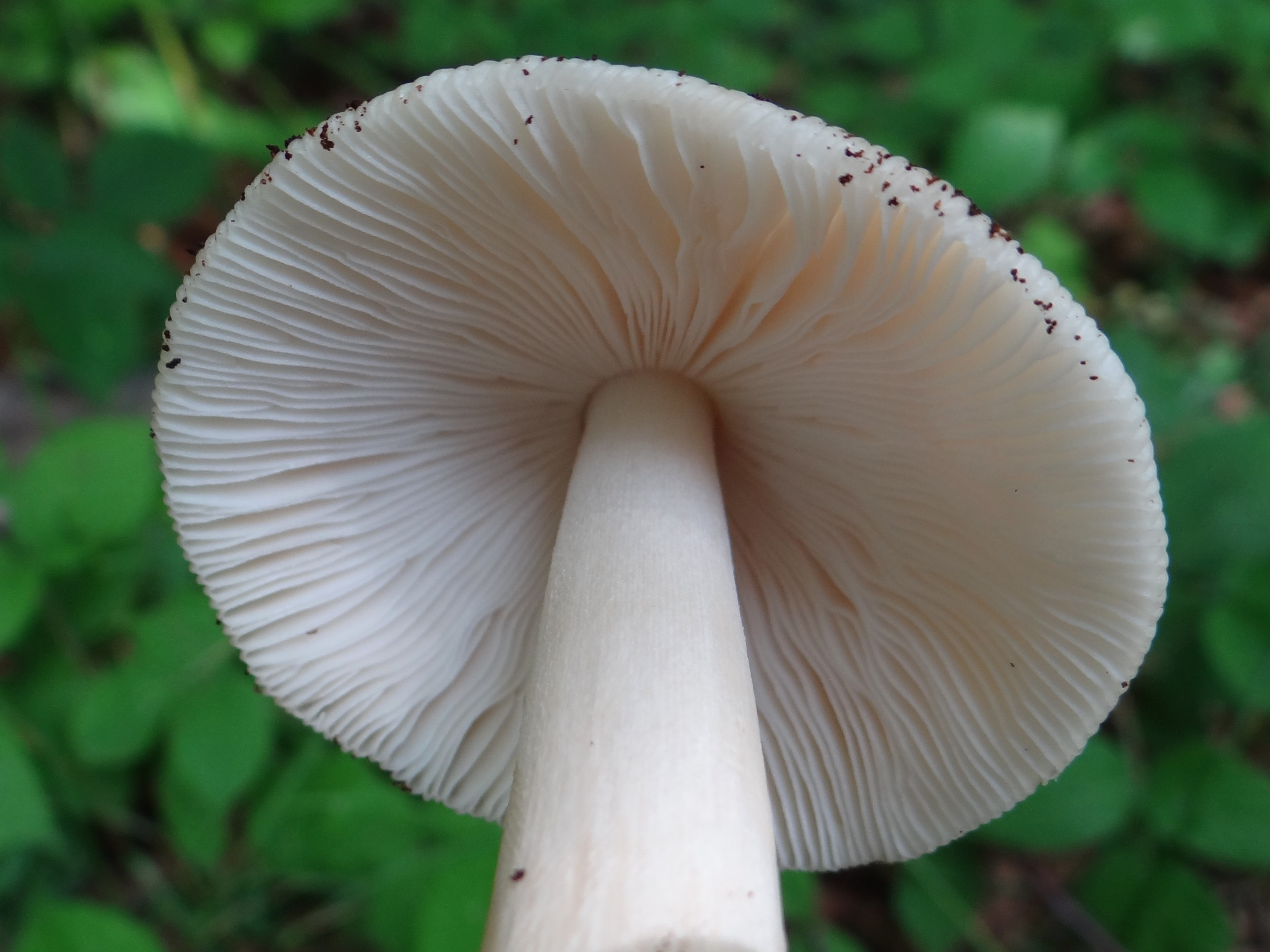 Amanita fulva (location: Poland, Rajbrot)